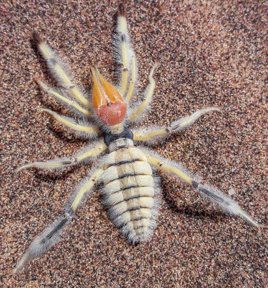 Metasolpuga picta - Dunes outside Swakopmund, Namibia